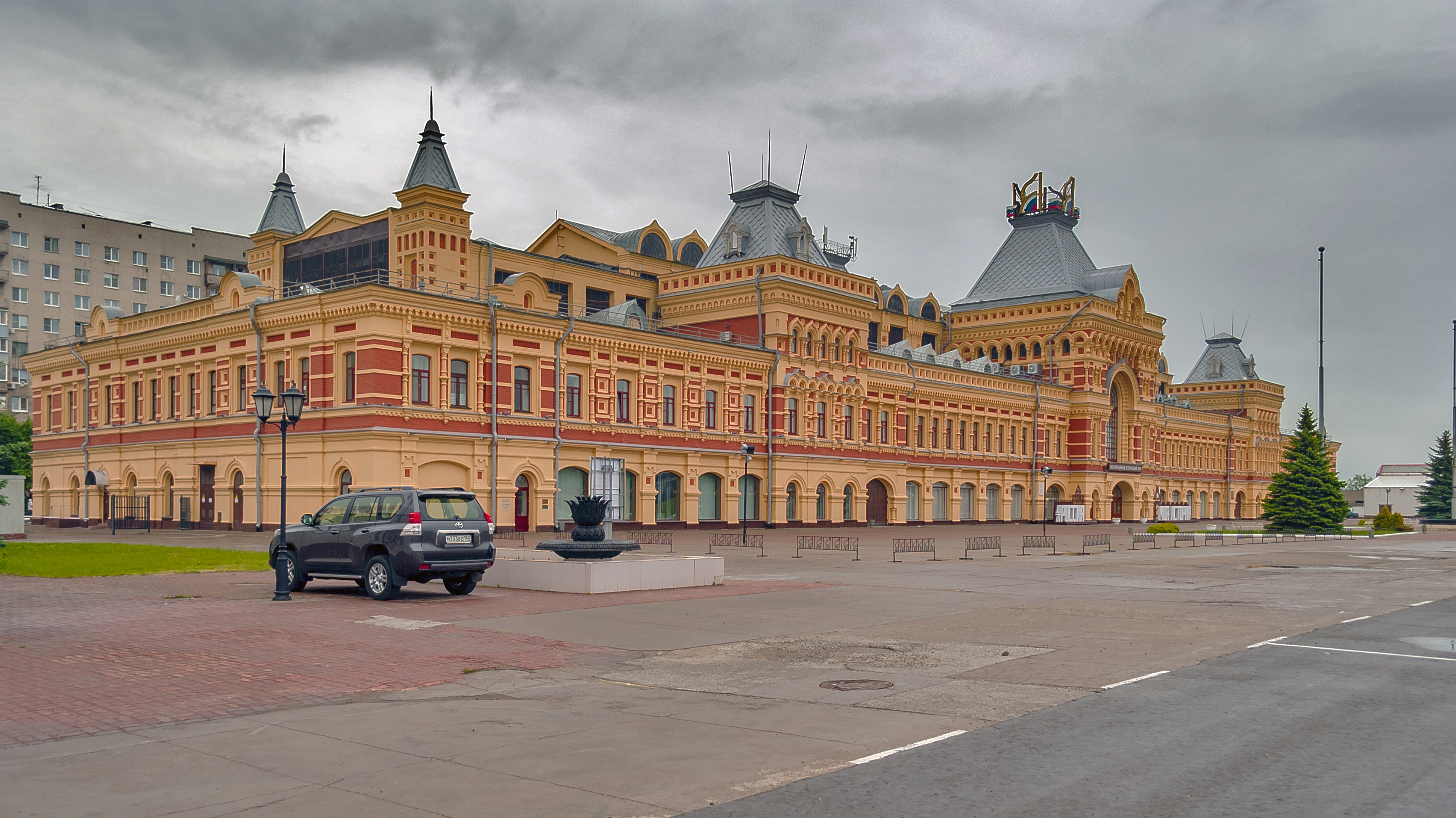 Main building of the Trade Fair in Nizhny Novgorod, Russia